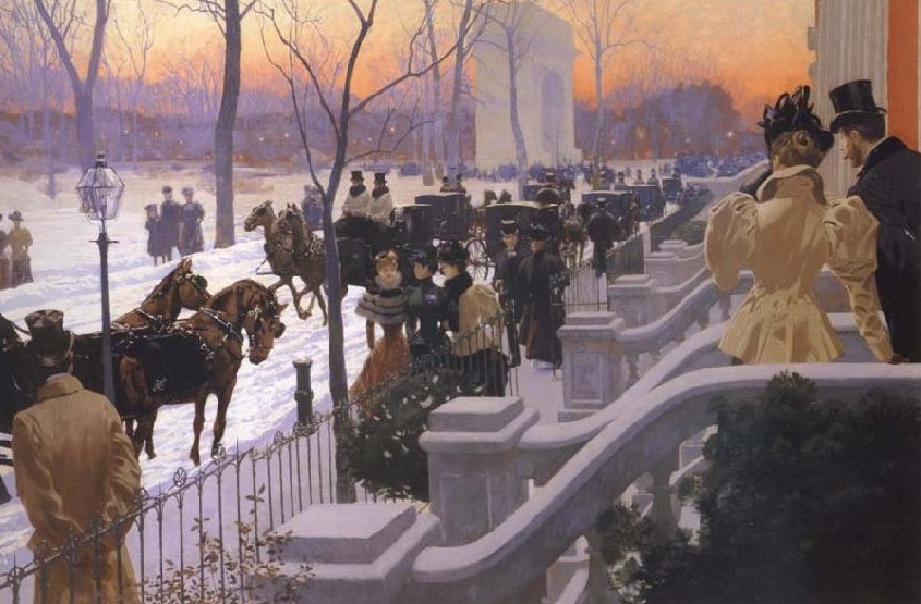 Washington Square during winter, New York 1897